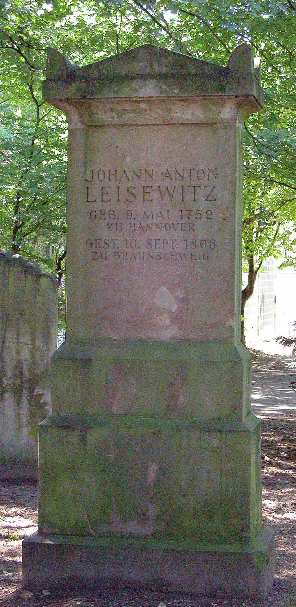 Brunswick, Germany: Tomb of Johann Anton Leisewitz.